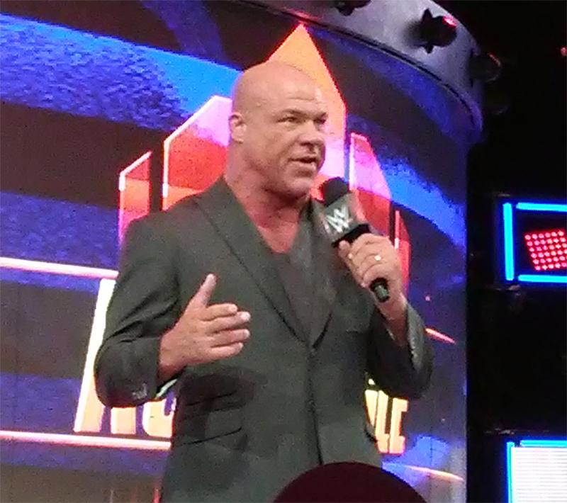 Picture depicts wrestler Kurt Angle as WWE Raw General Manager in July 2017.